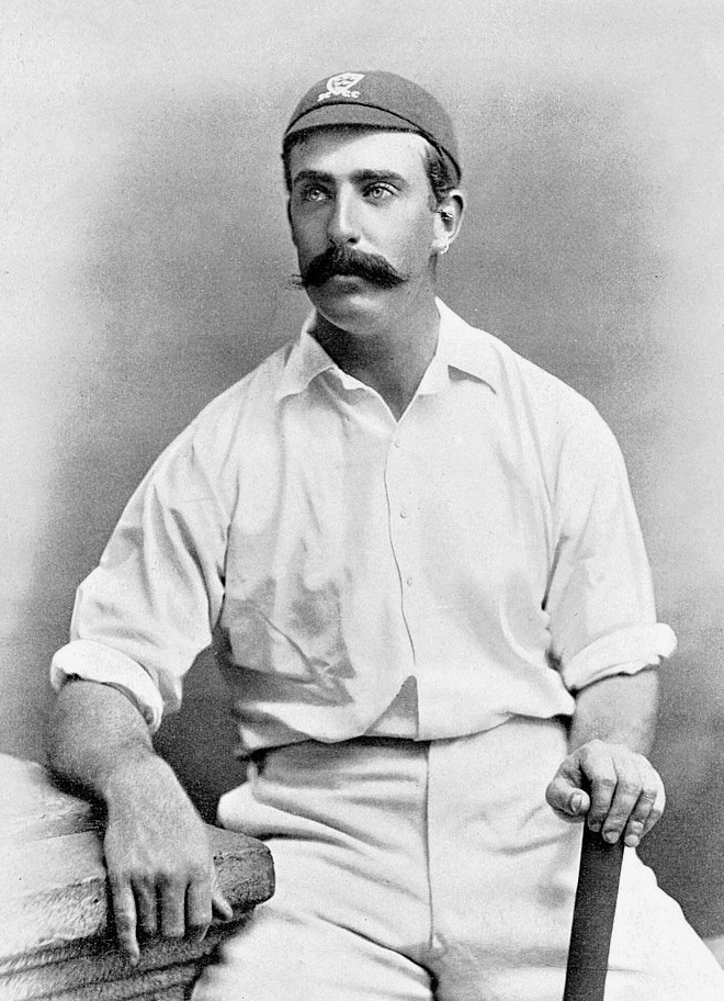 Sport, Cricket, Circa 1895, George Lindsay Wilson, Australian born all rounder from Victoria who played for Sussex